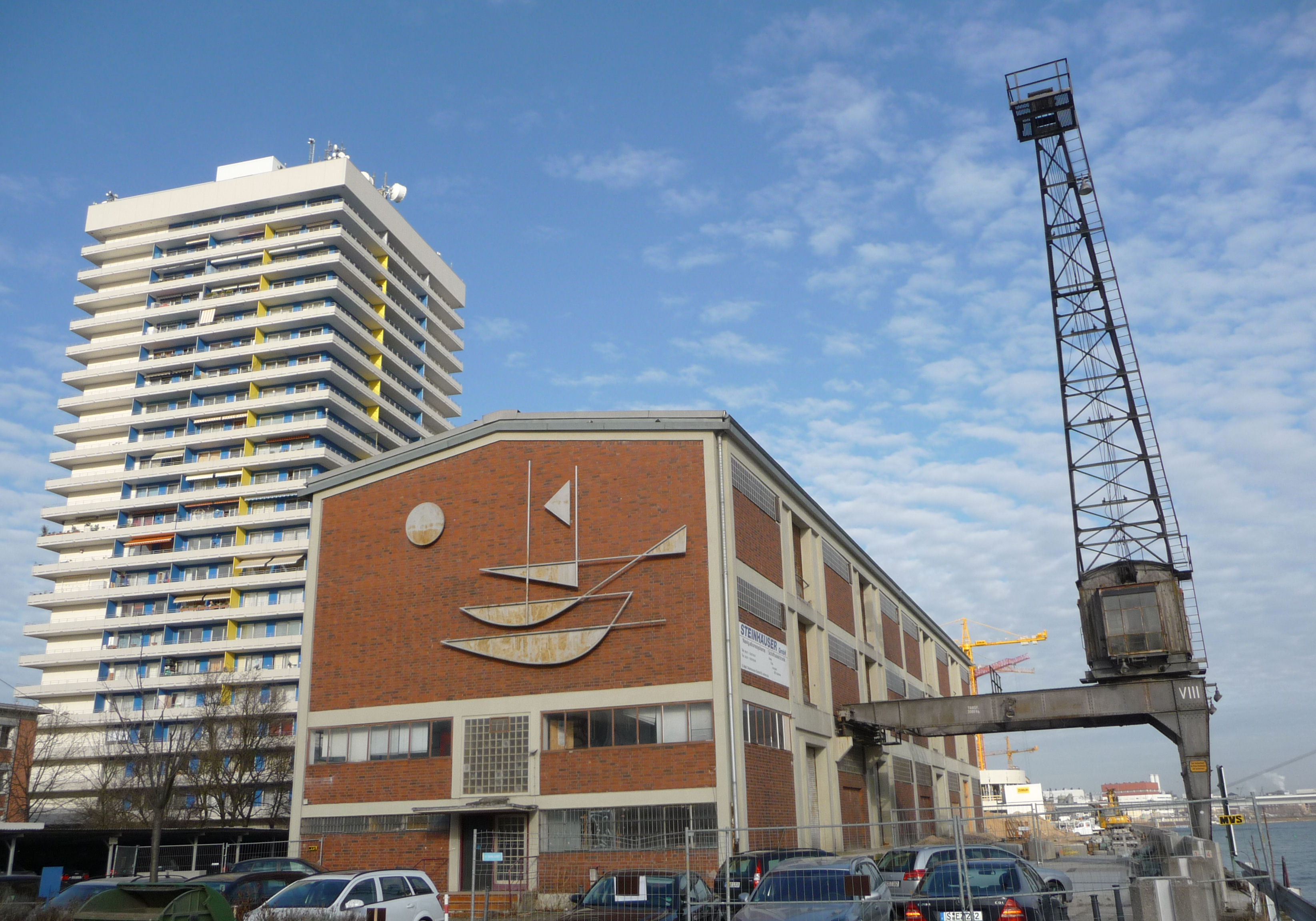 Rhein-Galerie in Ludwigshafen, Germany